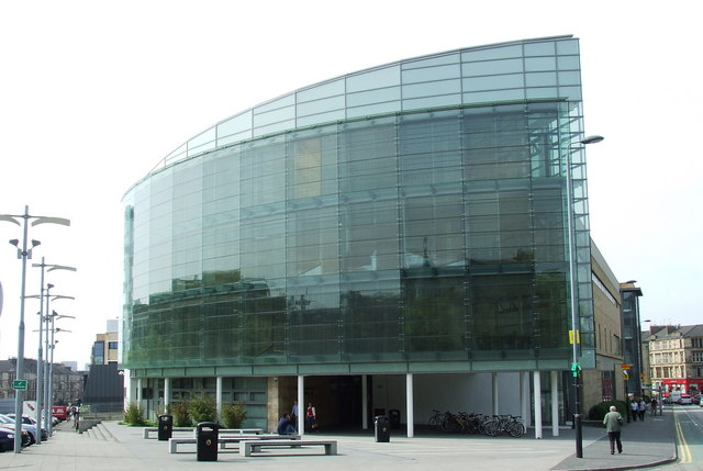 The Wolfson Medical School Part of the University of Glasgow Gilmorehill campus.